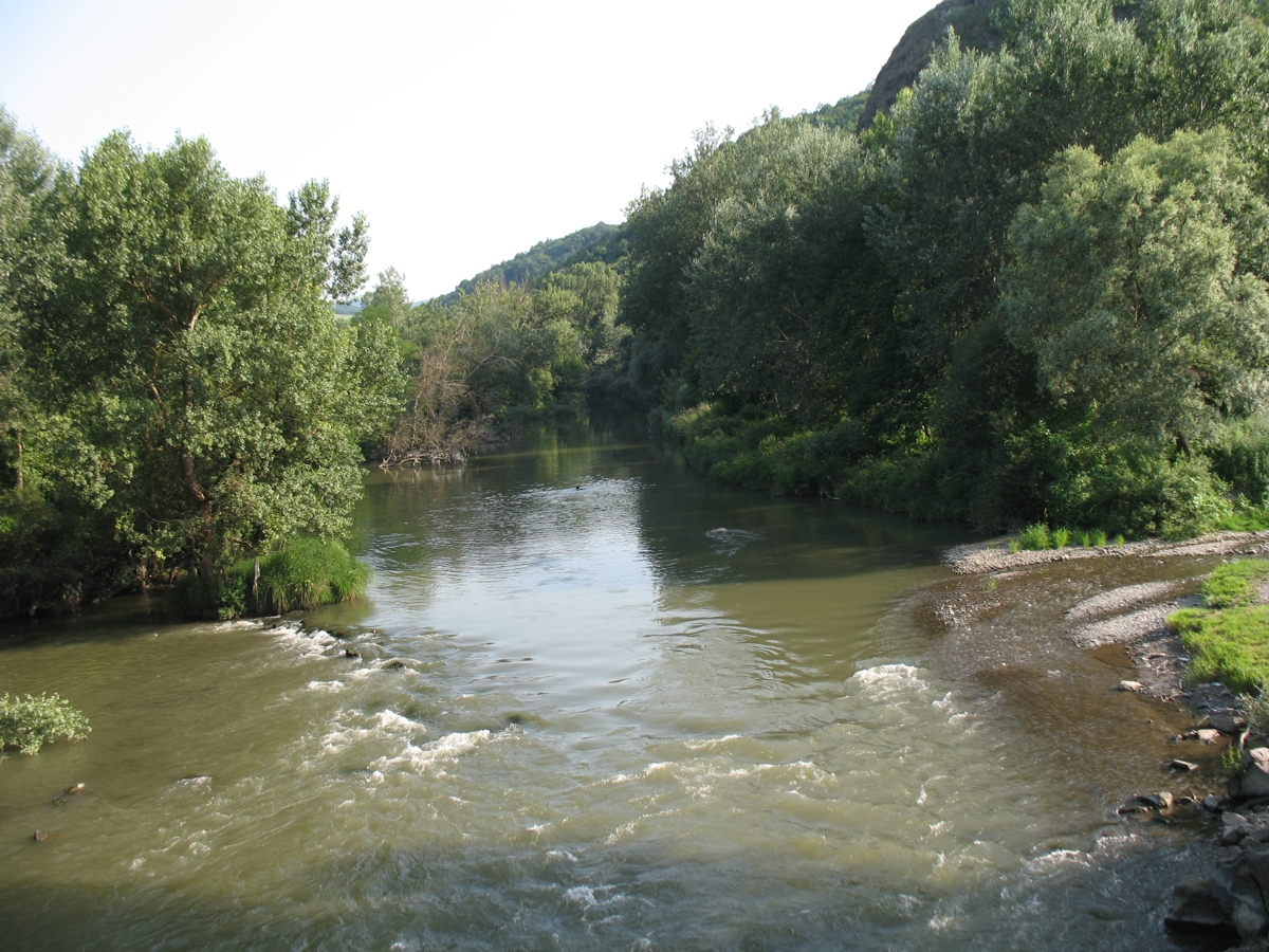 Confluence of Brvenica (Gradačka reka) to Ibar,viewed from bridge over Ibar,Raška municipality,Serbia.